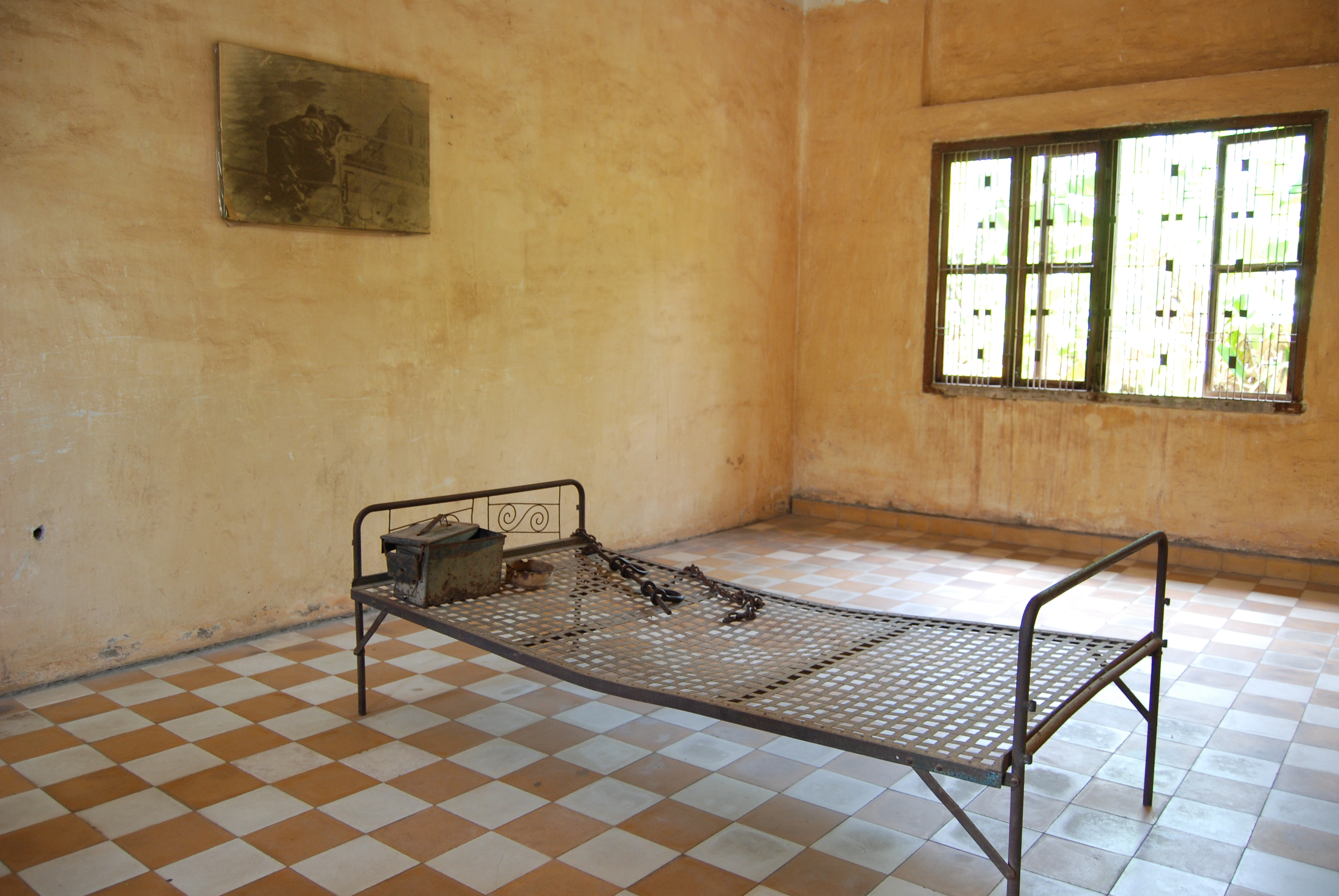 Detention and torture room, Security Prison 21 (S-21), Tuol Sleng Genocide Museum, Phnom Penh, Cambodia